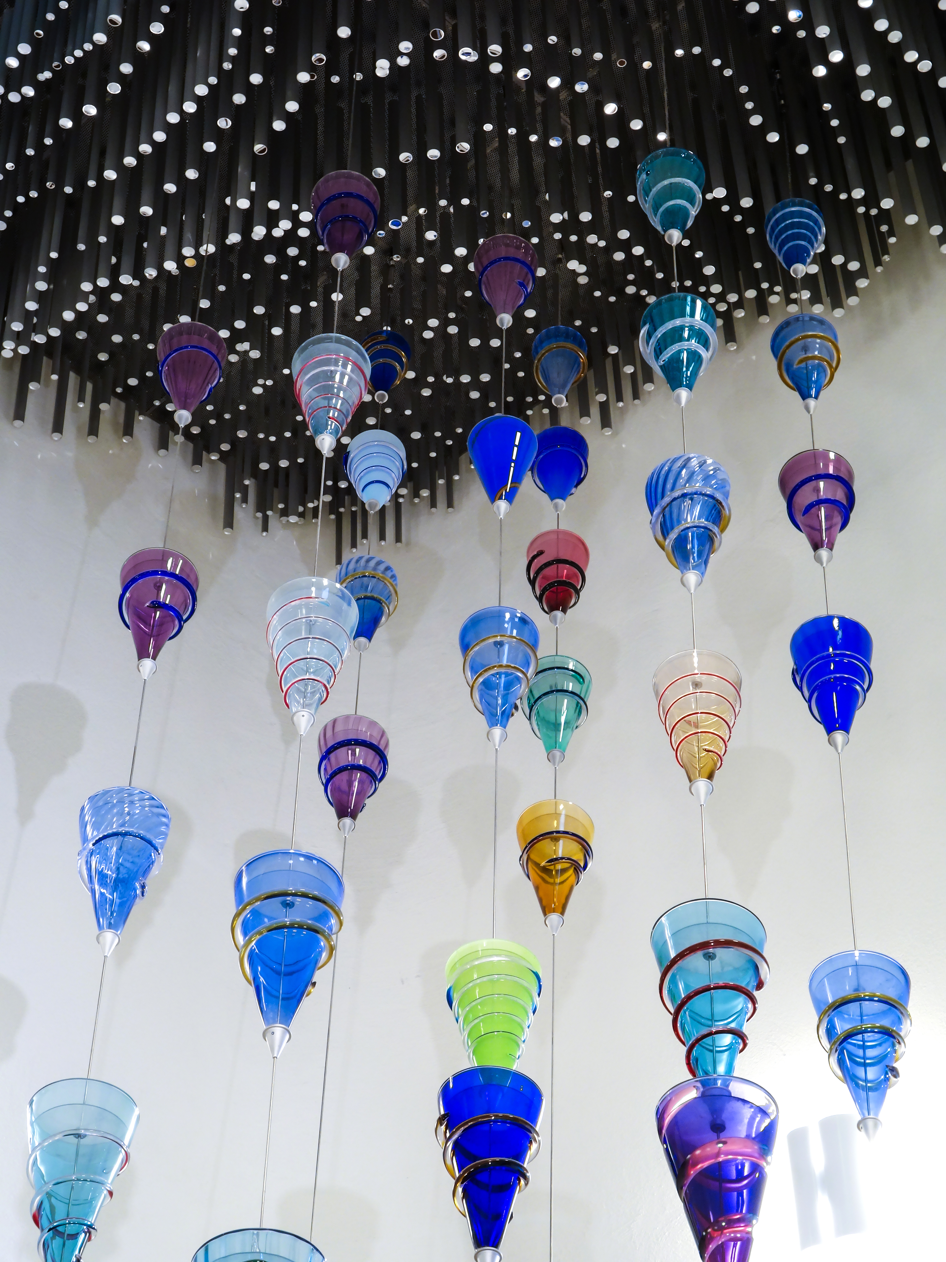 "Stenens sång om rymden", (Stone's song about space), sculpture in glass and metal by Göran Wärff, art in Norra Älvsborgs Länssjukhus (Northern Älvsborg county hospital) - NÄL, Trollhättan, Sweden.